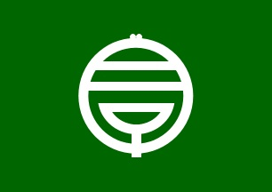 Flag of Shirako Chiba